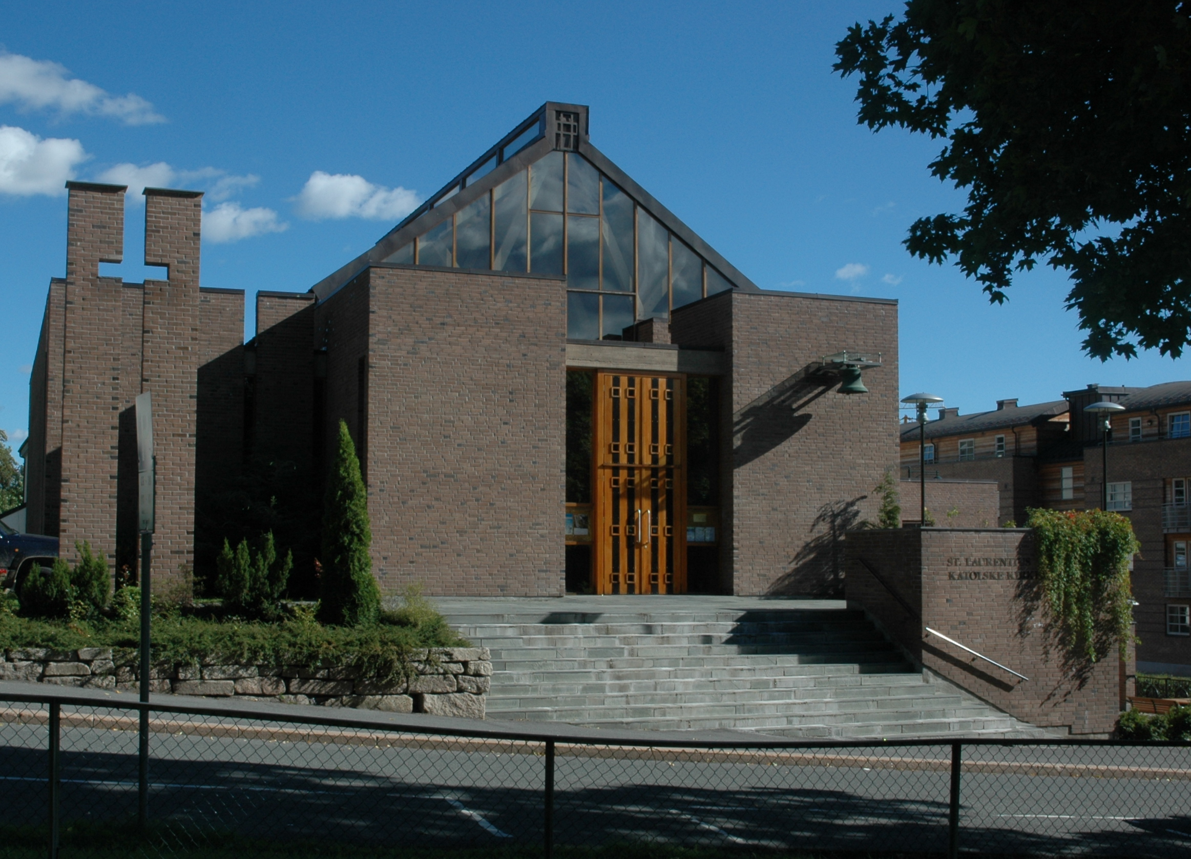 The catholic church St. Laurentius in Drammen.